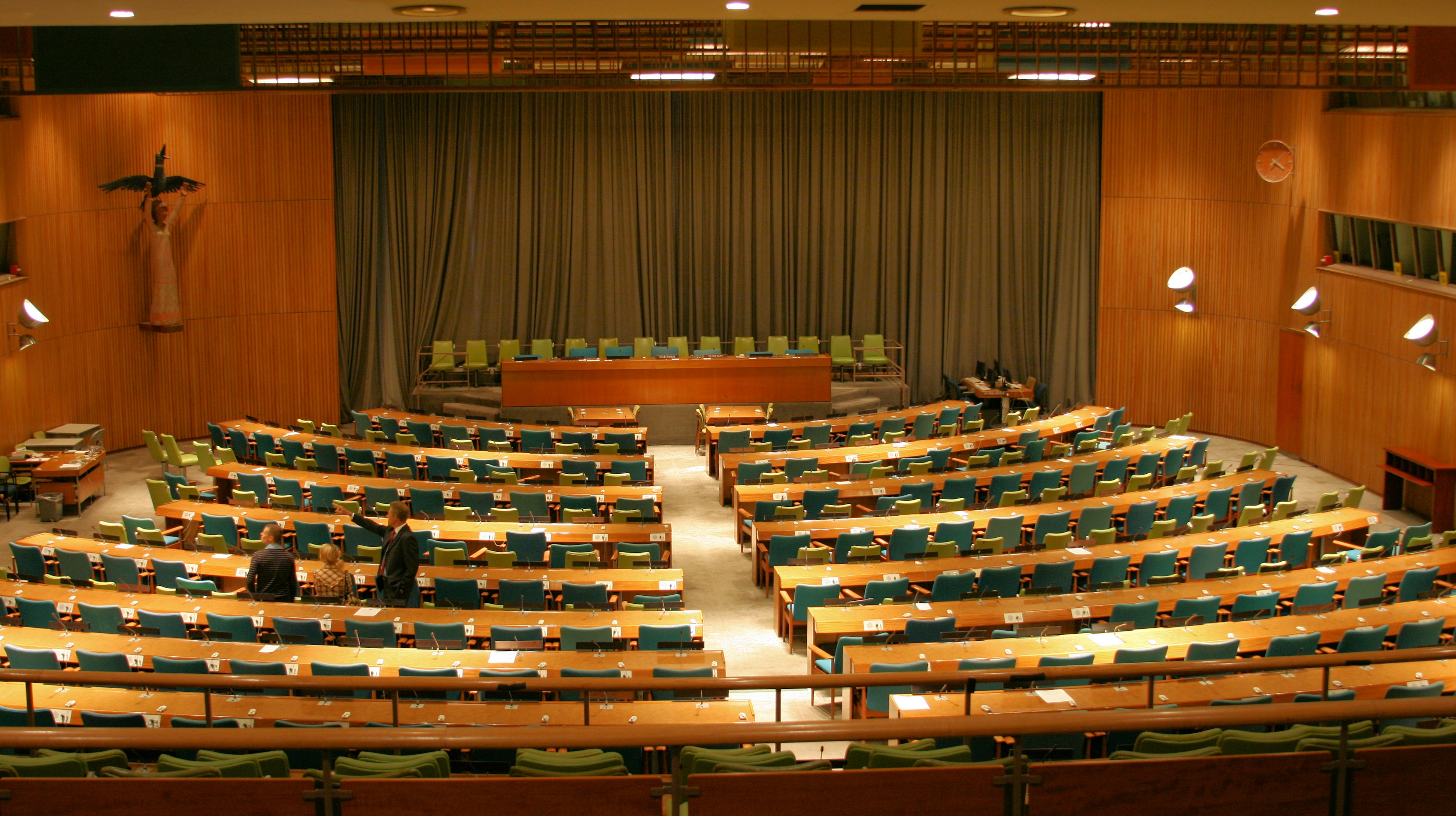 United Nations Trusteeship Council chamber